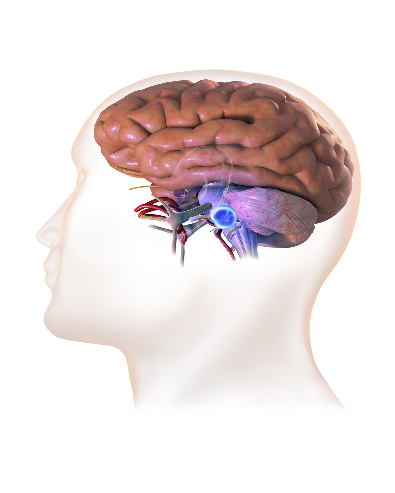 Acoustic Neuroma. This image was donated by Blausen Medical. Please visit our website to see more medical illustrations and animations.